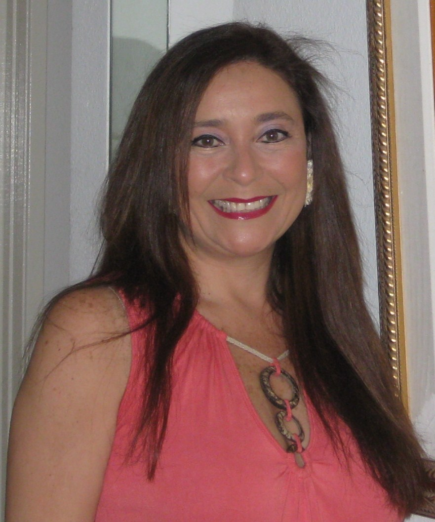 Karina Galvez, born 1964, Ecuadorian poet, photo of self